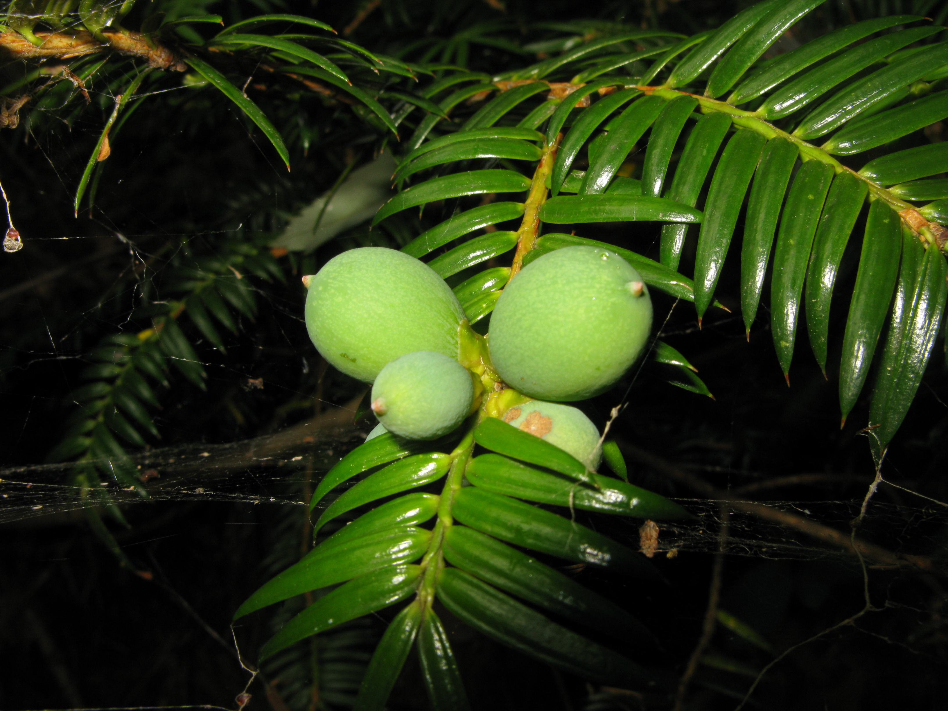 Torreya nucifera var. radicans, Aizu area, Fukushima pref., Japan